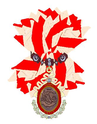 Order of the Illustrious Ottoman Dynasty(Hanedani Ali Osman Nishani)on it's ribbon